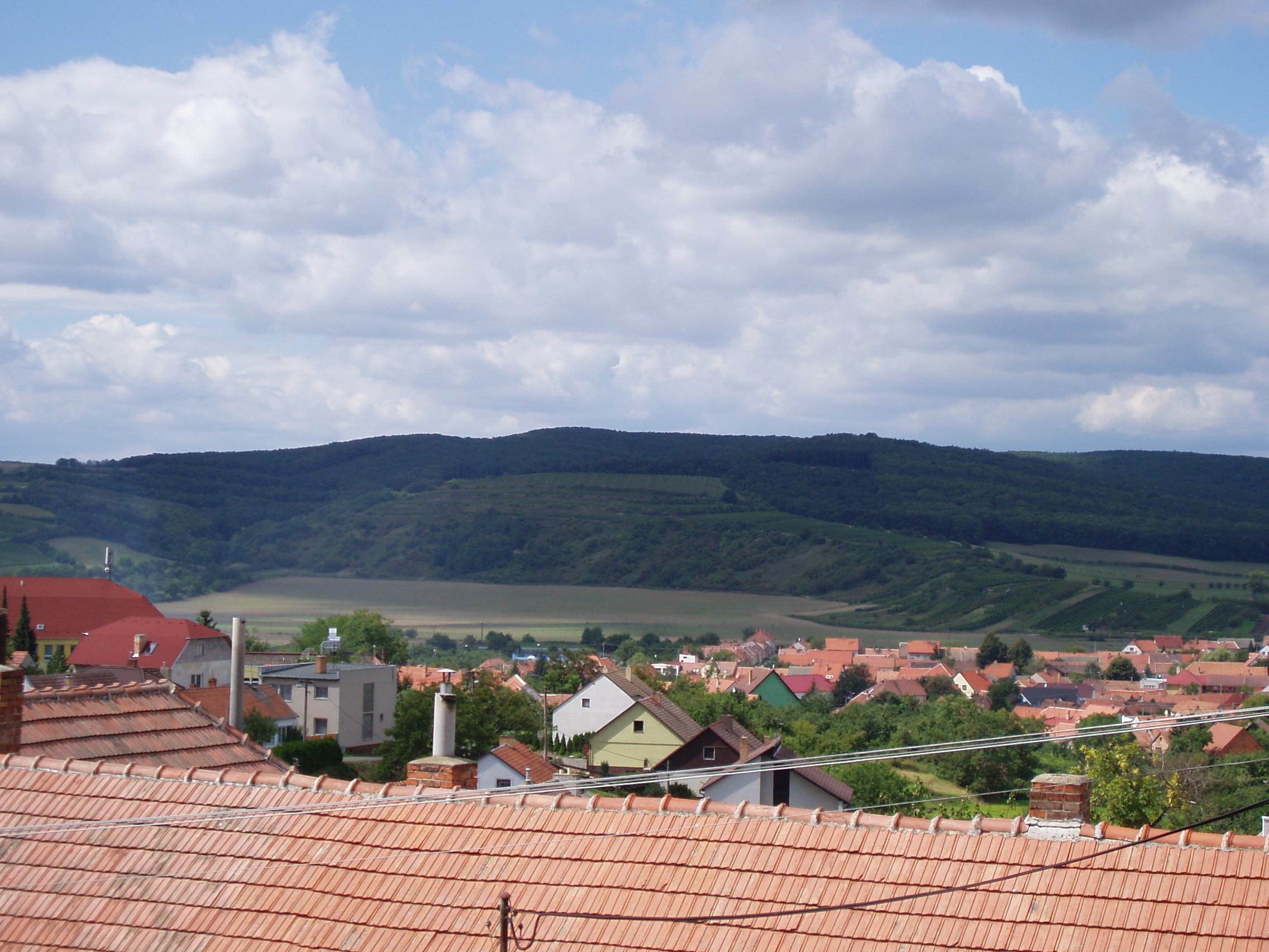 Overall view of Kobylí village, Břeclav District, Czech Republic.